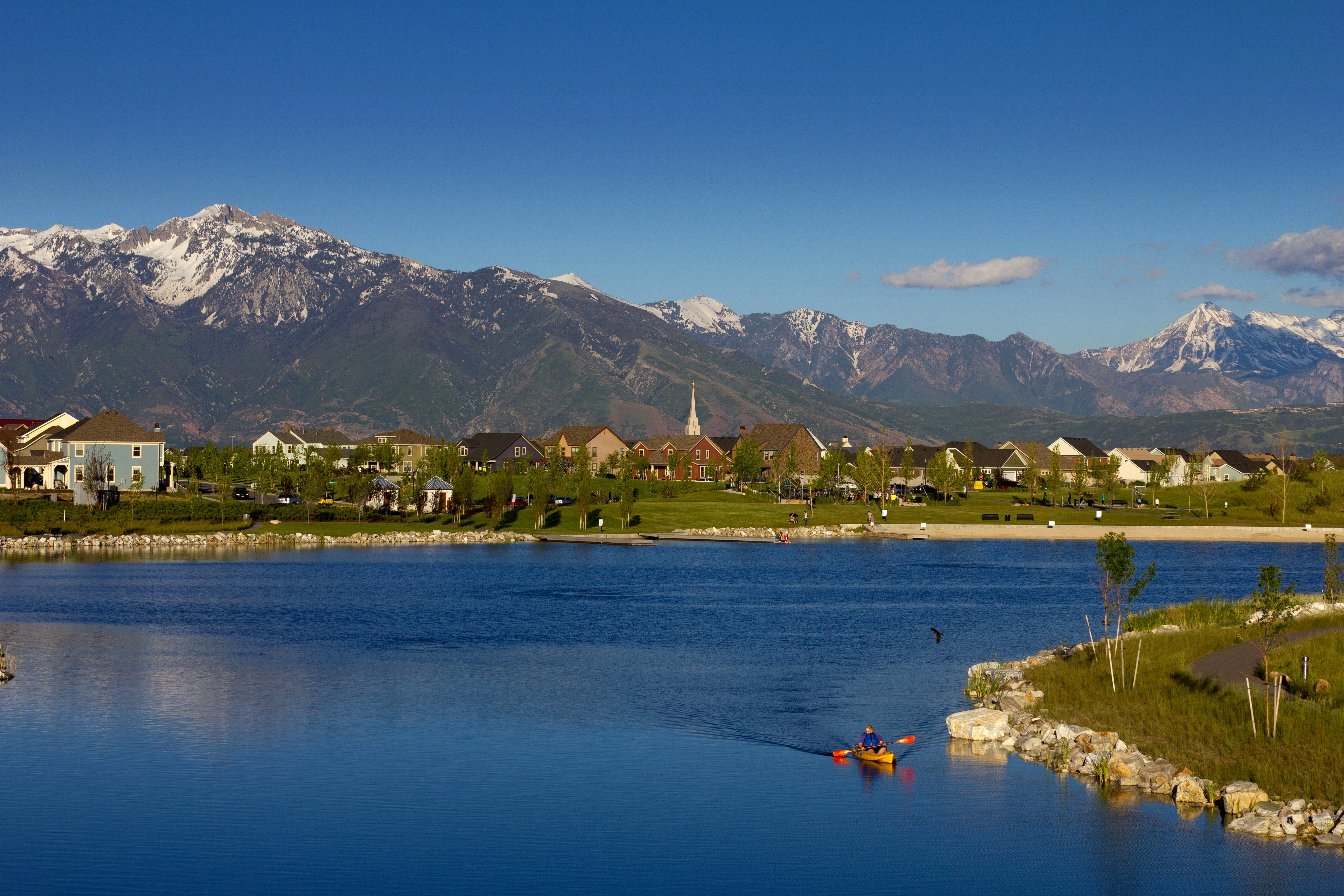 Daybreak Utah is a master-planned community designed using a traditional neighborhood development model (TND) which means that all homes within the community are within a five-minute walk or bike ride of a major amenity such as a park, the lake, or a shopping area, reducing resident's dependence on automobile travel and providing the opportunity for a healthier lifestyle.